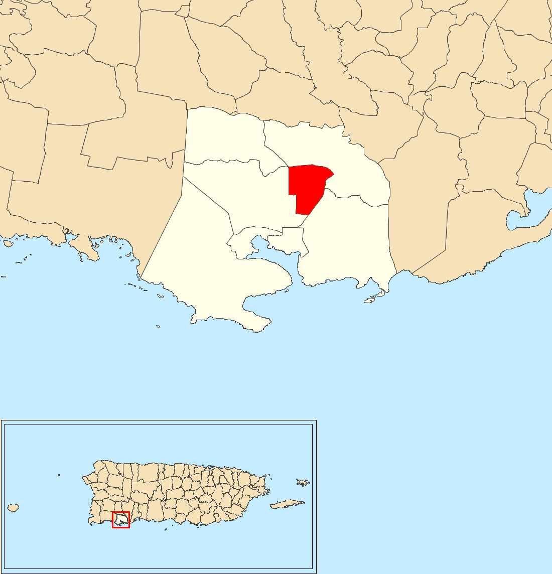 Caño, Guánica, Puerto Rico locator map